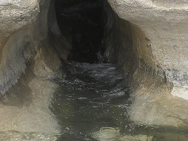 Ain Soltan spring near Kesra, Tunisia